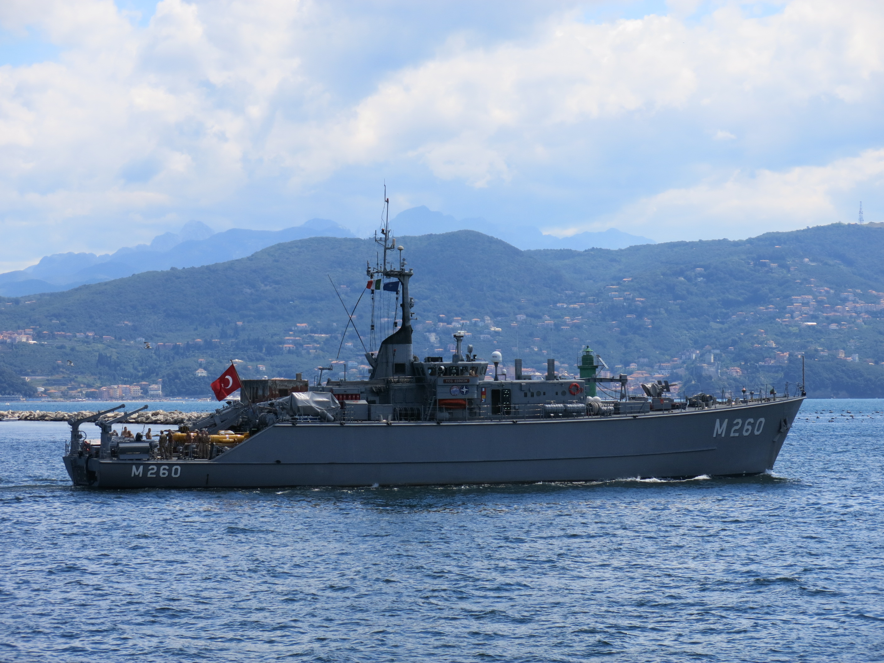 Turkish minehunter TCG Edincik (M-260) in the military harbour of La Spezia (Liguria, Italy).